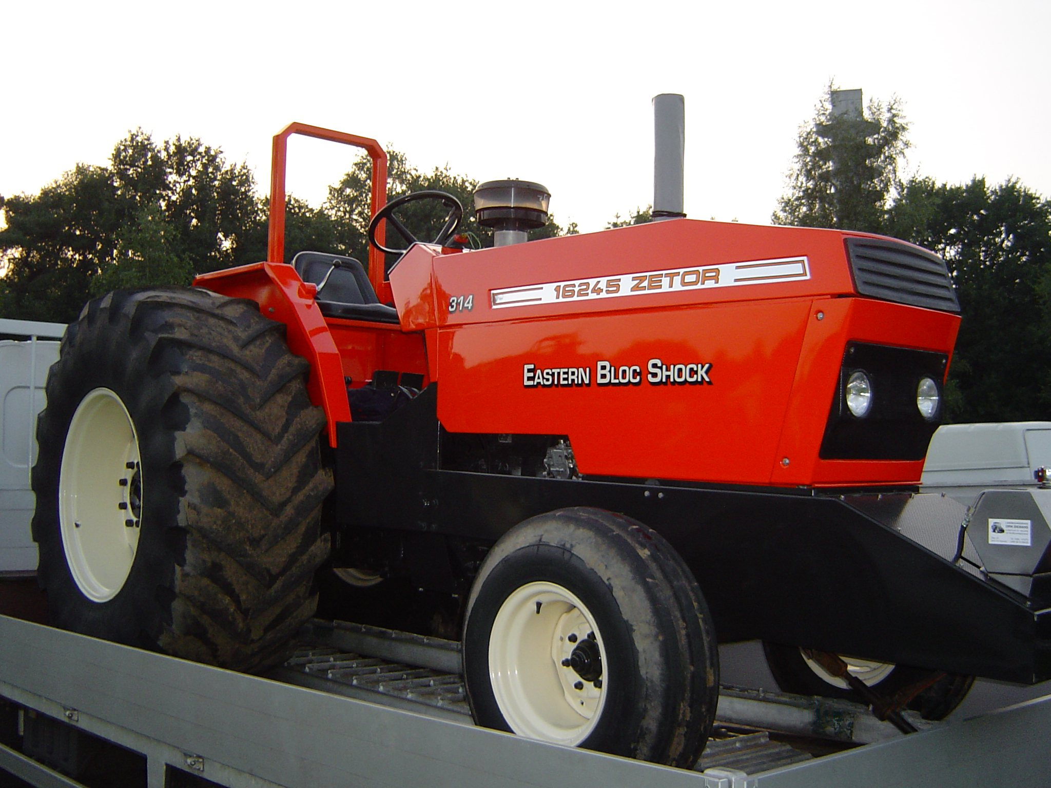 Zetor 16245 tractor. 314. Eastern Bloc Shock.